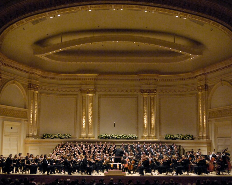 The Westminster Symphonic Choir, the single most recruited choir in the world today, sings with the New York Philharmonic in Carnegie Hall